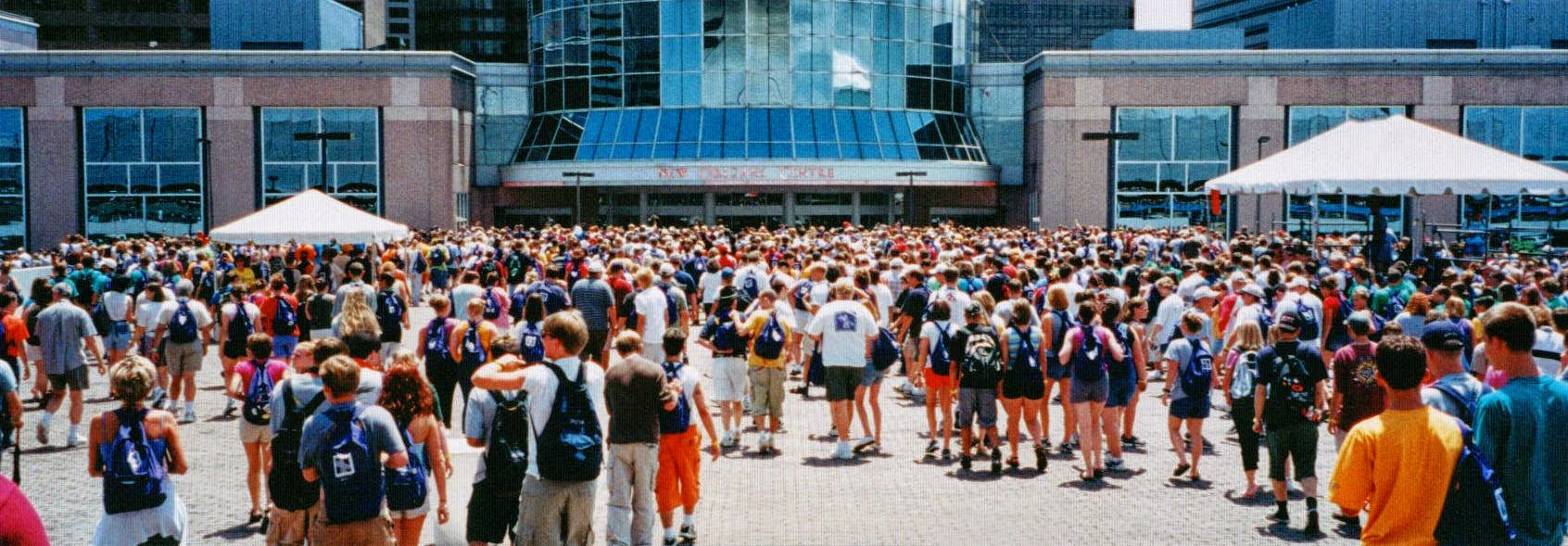 National Lutheran Youth Gathering in New Orleans, Louisiana, 2001